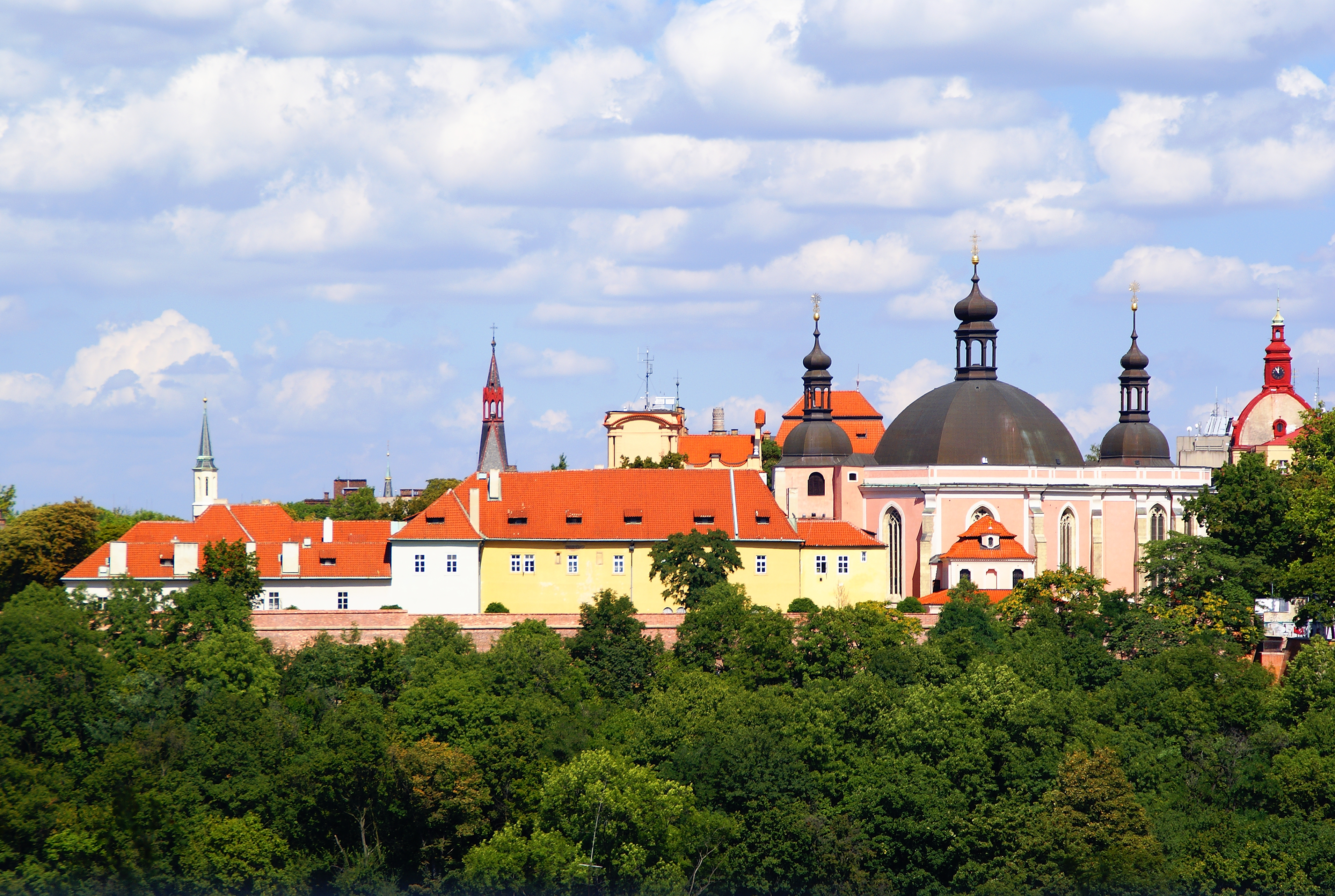 Prague, Karlov